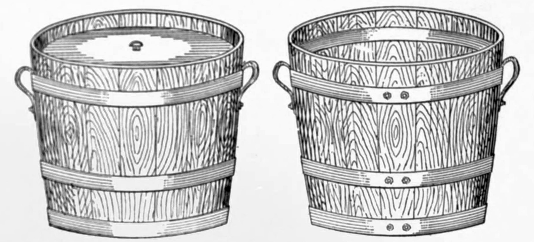 Left - a full pail, complete with lid, ready to be emptied. Right - an empty pail, ready to be returned.